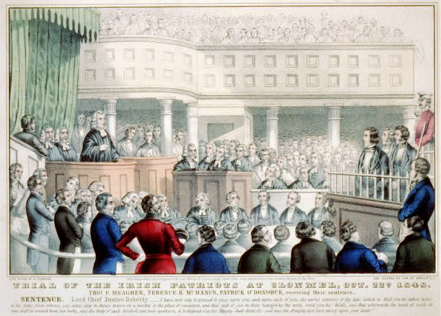 Trial of the Irish patriots at Clonmel, Oct. 22nd. 1848 Thos. F. Meagher, Terence B. Mc.Manus, Patrick O'Donohue, receiving their sentence / lith. & pub. by N. Currier. Print shows Lord Chief Justice Doherty, standing (left), delivering a death sentence to members of the rebel group, Young Ireland, standing (right).